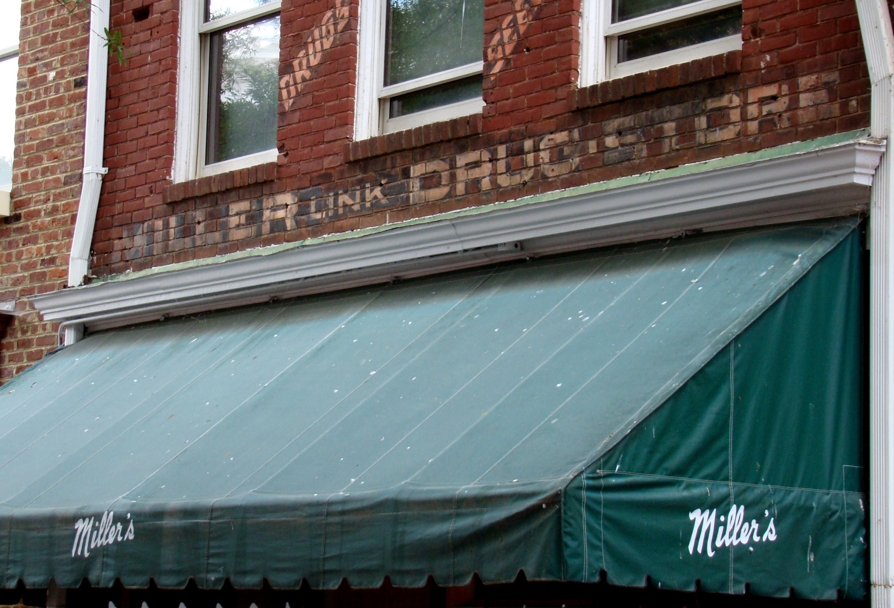 A picture of Miller's Bar in Charlottesville, VA